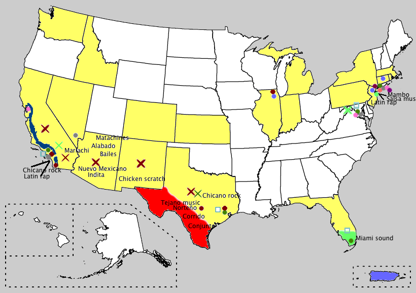 Map of the United States showing elements of interest to Latin music pedro h.cheve da vila gabriel passos